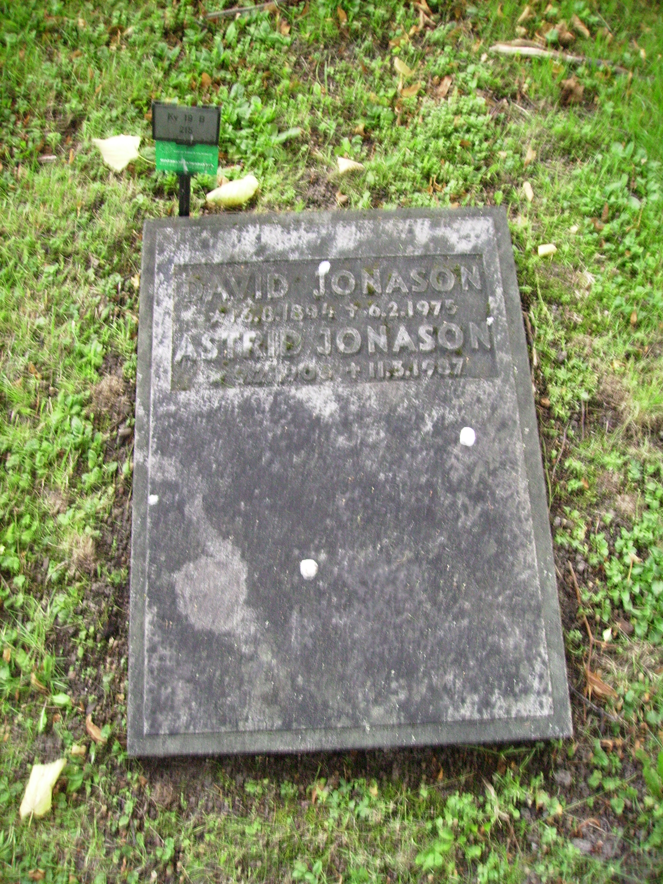 Picture of David Jonason's grave at Norra begravningsplatsen in Stockholm